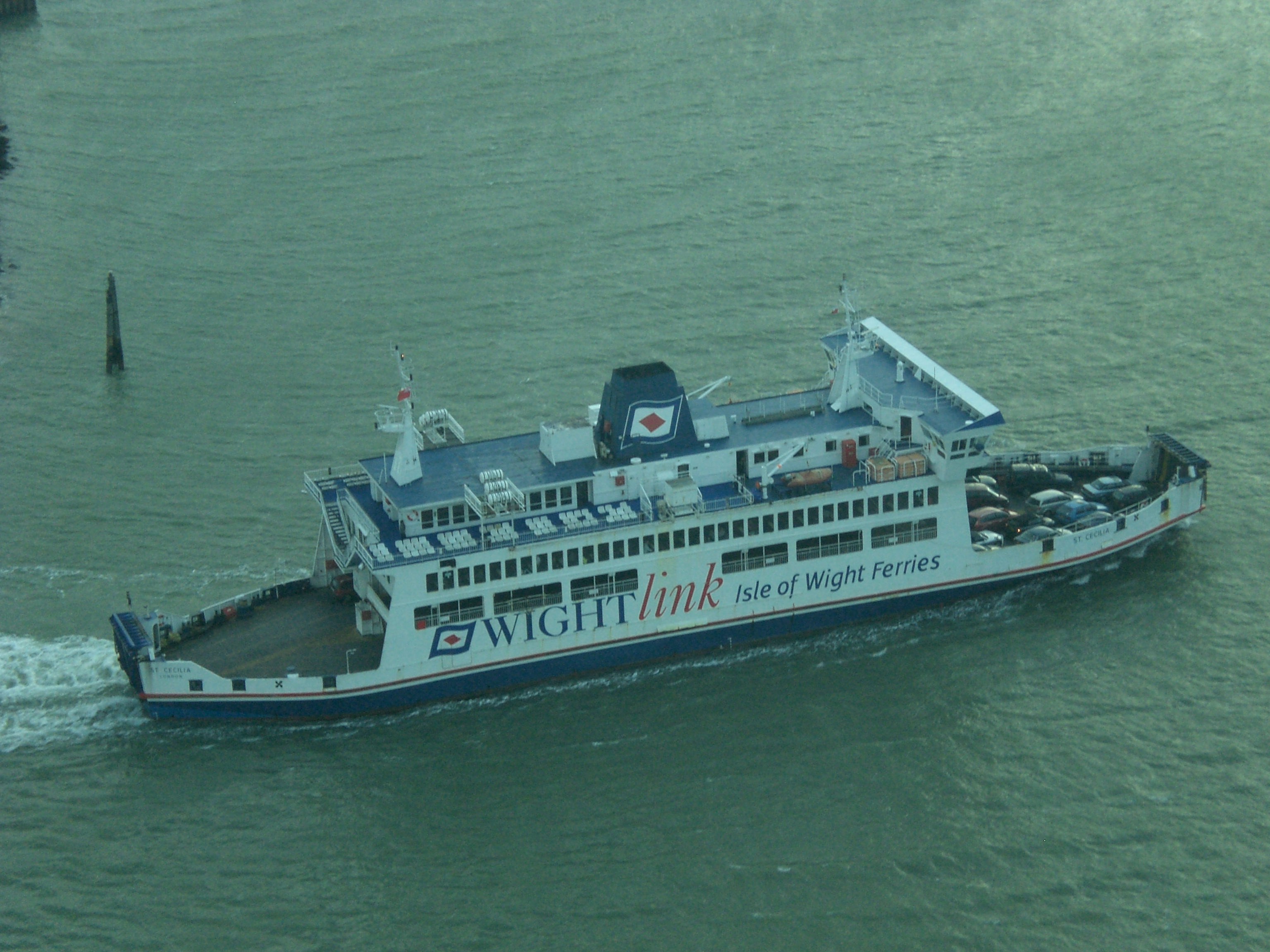 Wightlink's St Cecilia in Portsmouth harbour. IMO Number: 8518546 MMSI Number: 235031617 Callsign: MFJT9 Length: 77.0m Beam: 21.0m